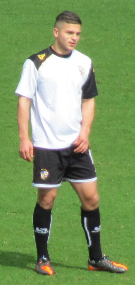 Pictured during the 2-2 draw between Port Vale and Northampton Town on 20 April 2013.